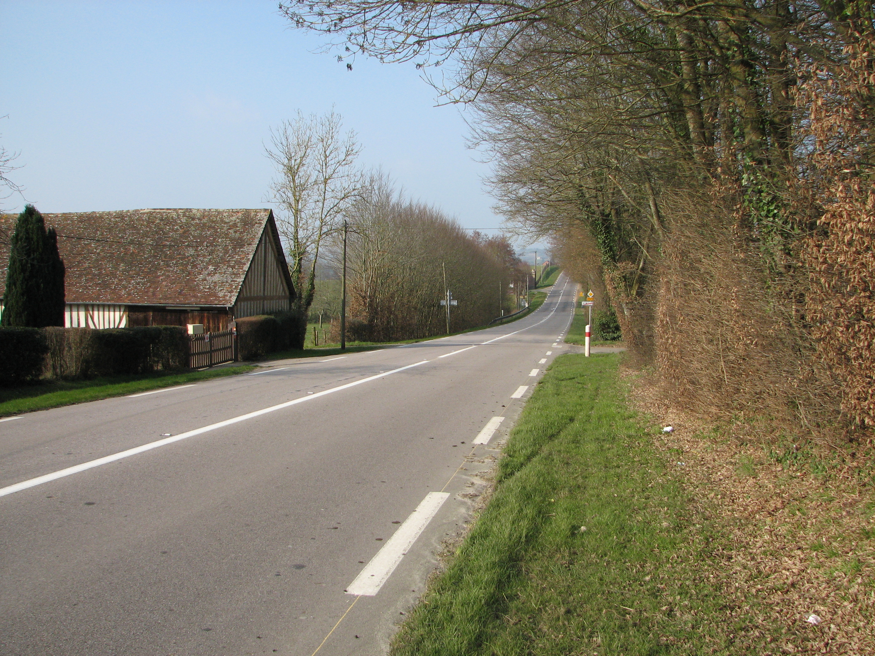 Outskirts of Vimoutiers, in Normandy, in a place called La Gosselinaie, on the road for Sainte-Foy de Montgommery. It's on this straight section of the road that Marshall Rommel car was machine-gunned by an Allied plane in July 1944